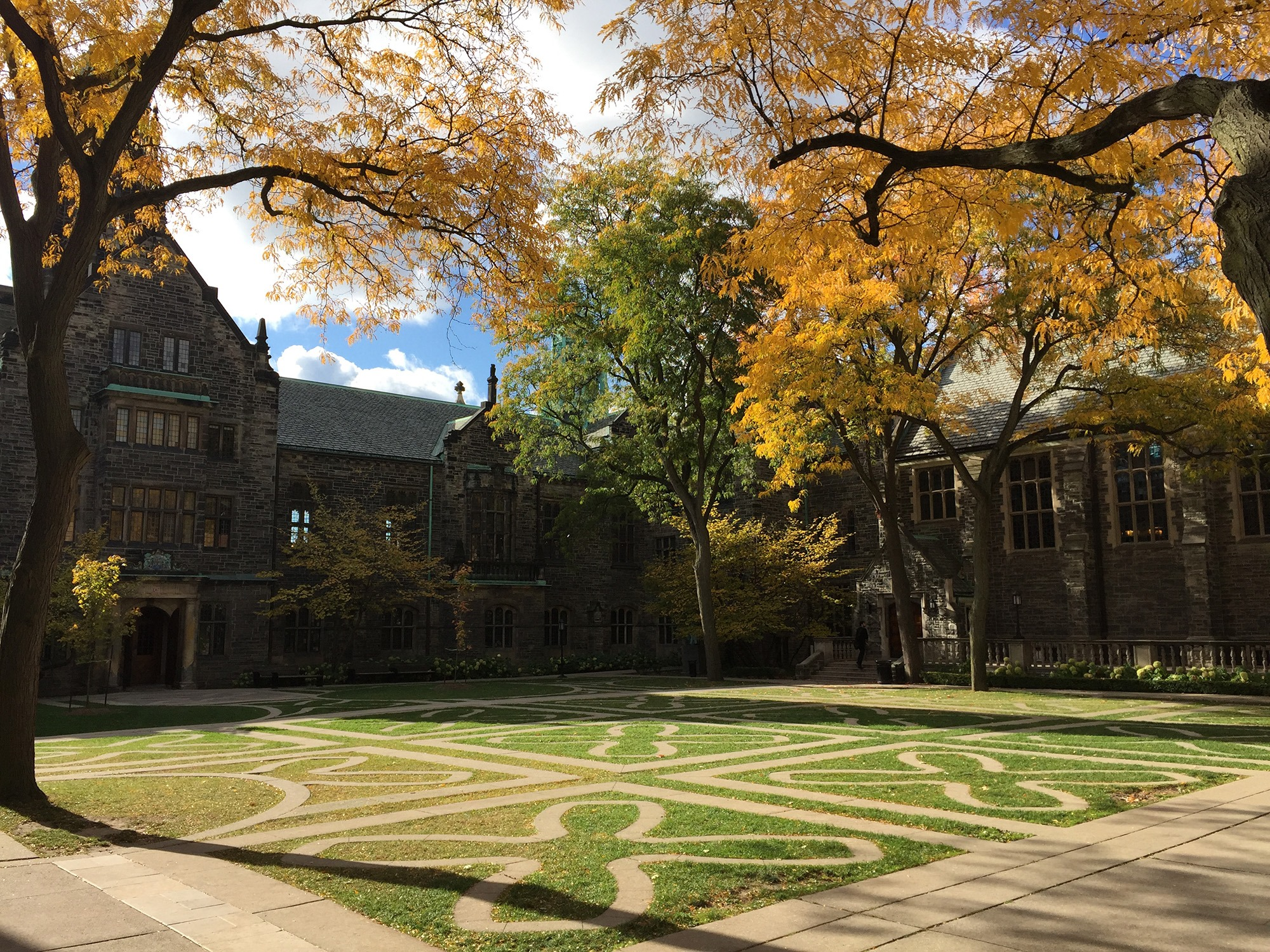 The Quadrangle (quad) of Trinity College, Toronto